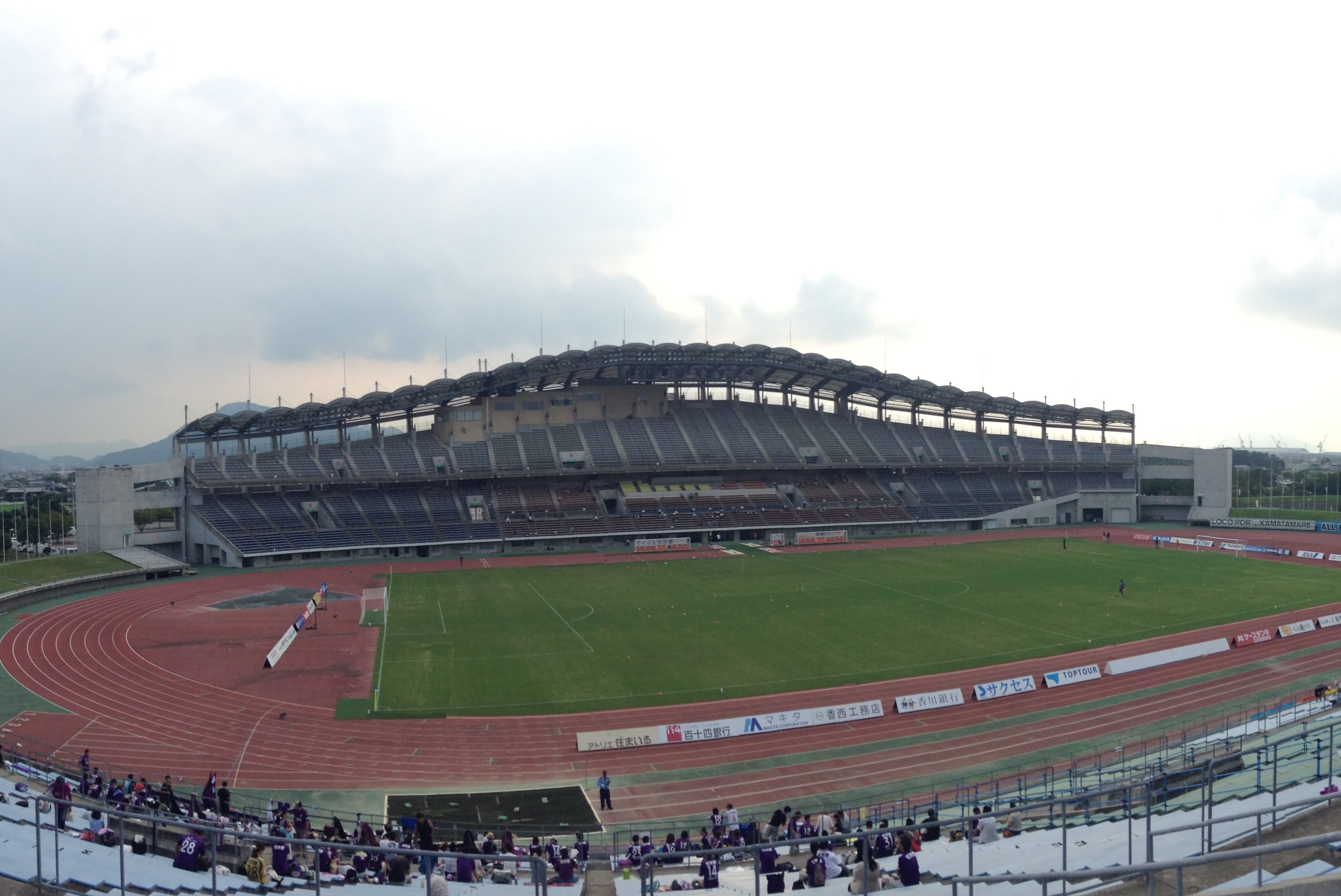 Main stand of Marugame Stadium. J. League Division 2 ,Kamatamare Sanuki vs Kyoto Sanga F.C., 24 August, 2014